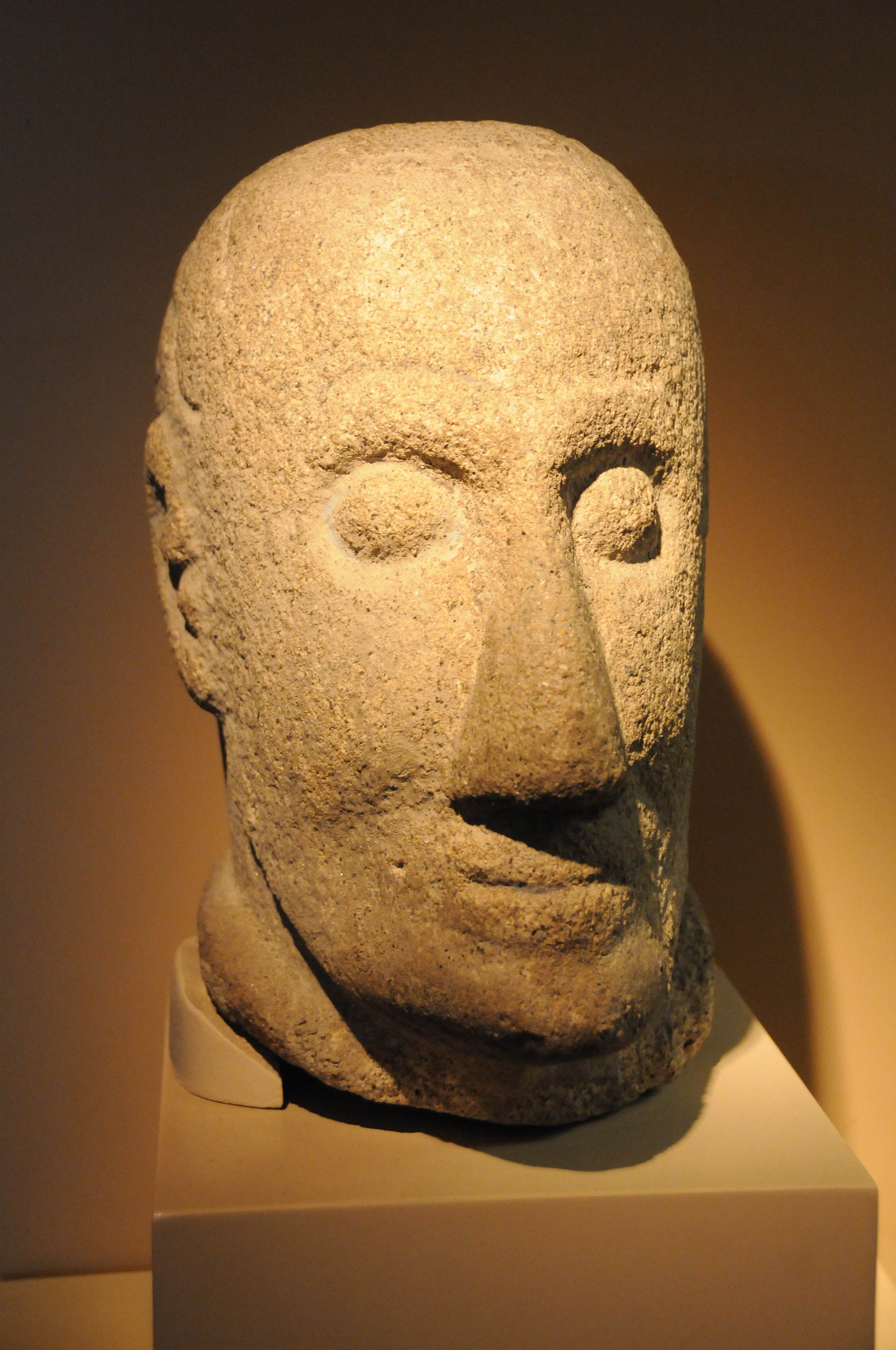 Museo Arqueolóxico Provincial de Ourense, Galicia, Spain.